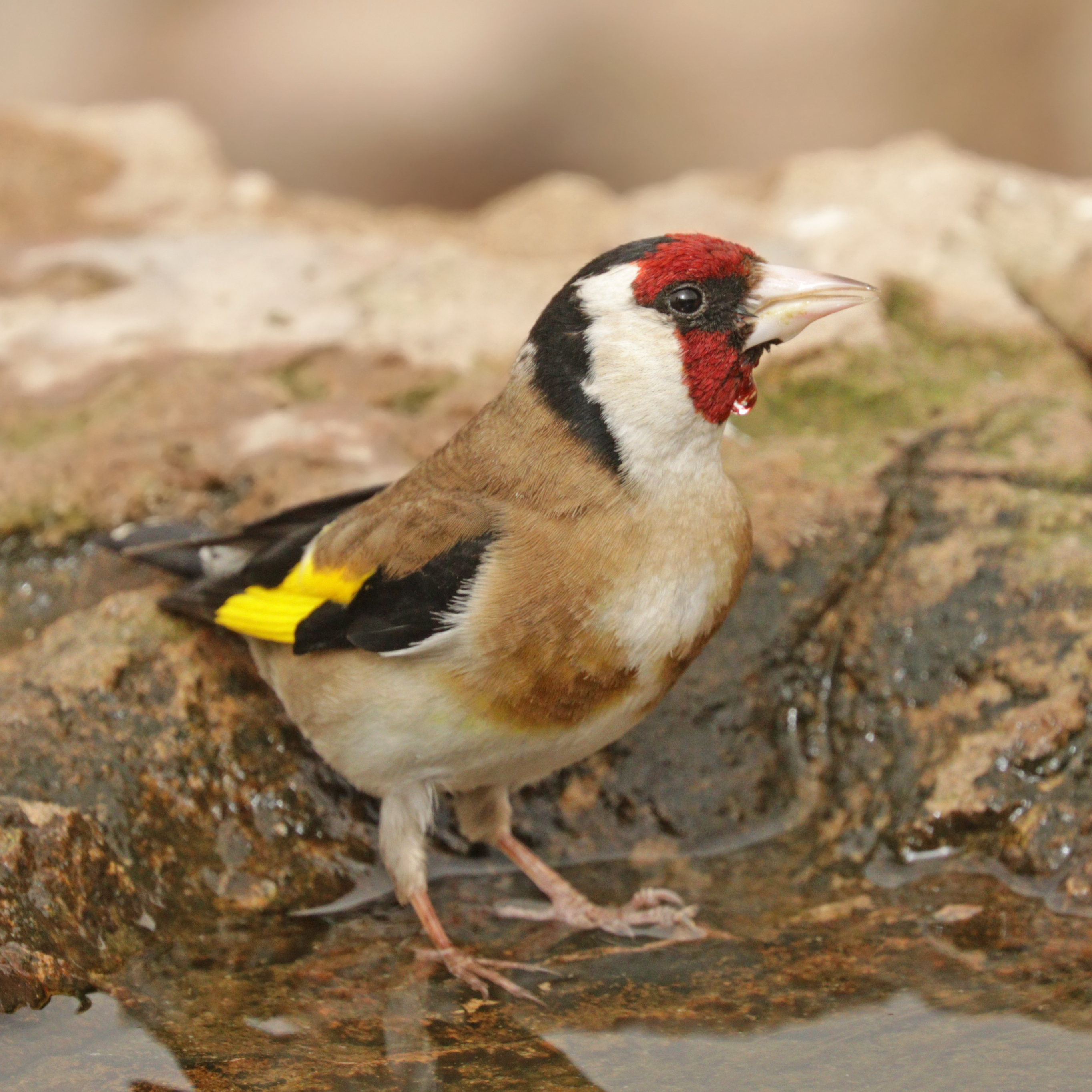 European goldfinch (Carduelis carduelis parva), Souss-Massa National Park, Morocco